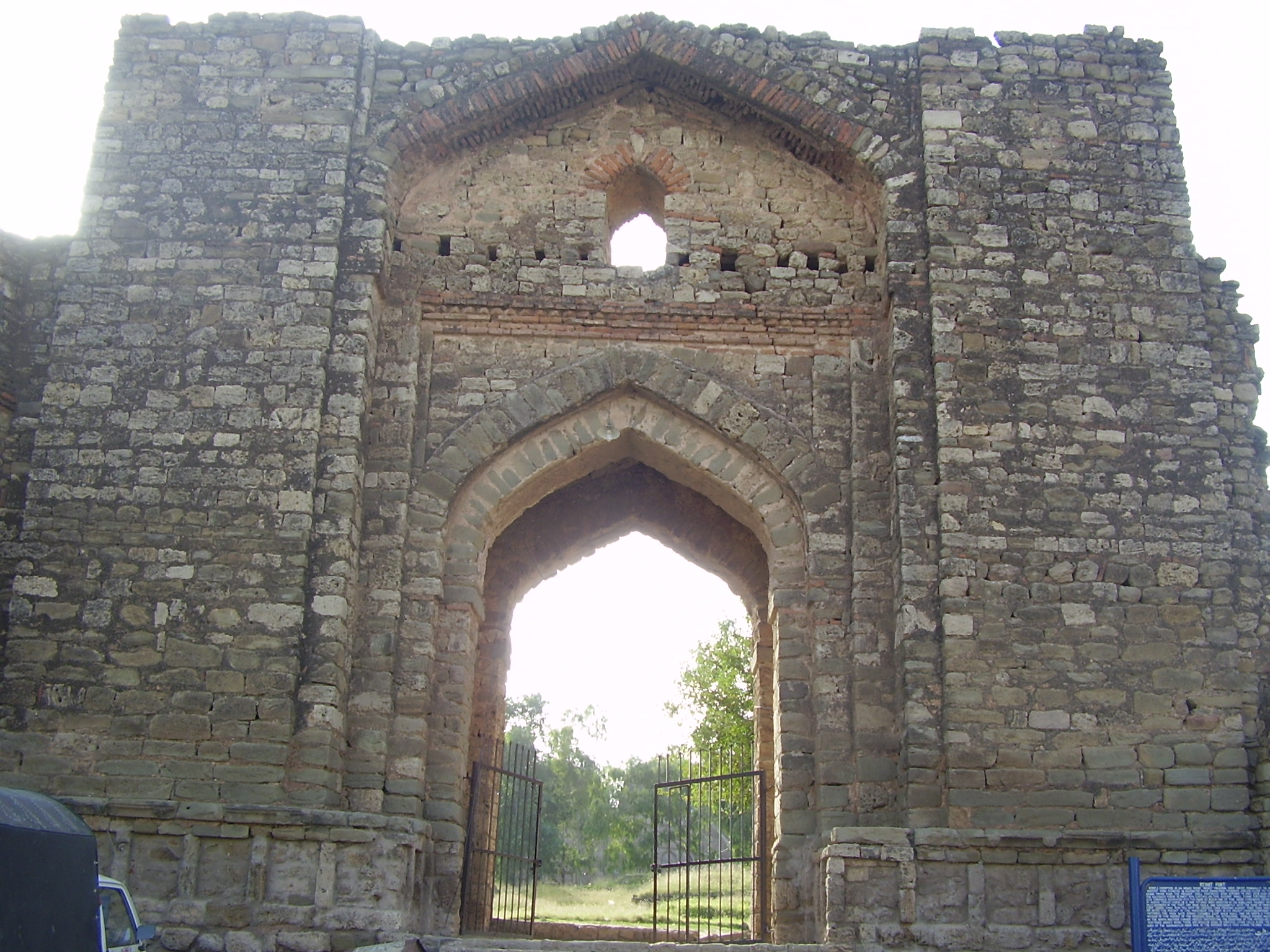 Rawat Fort Main gate